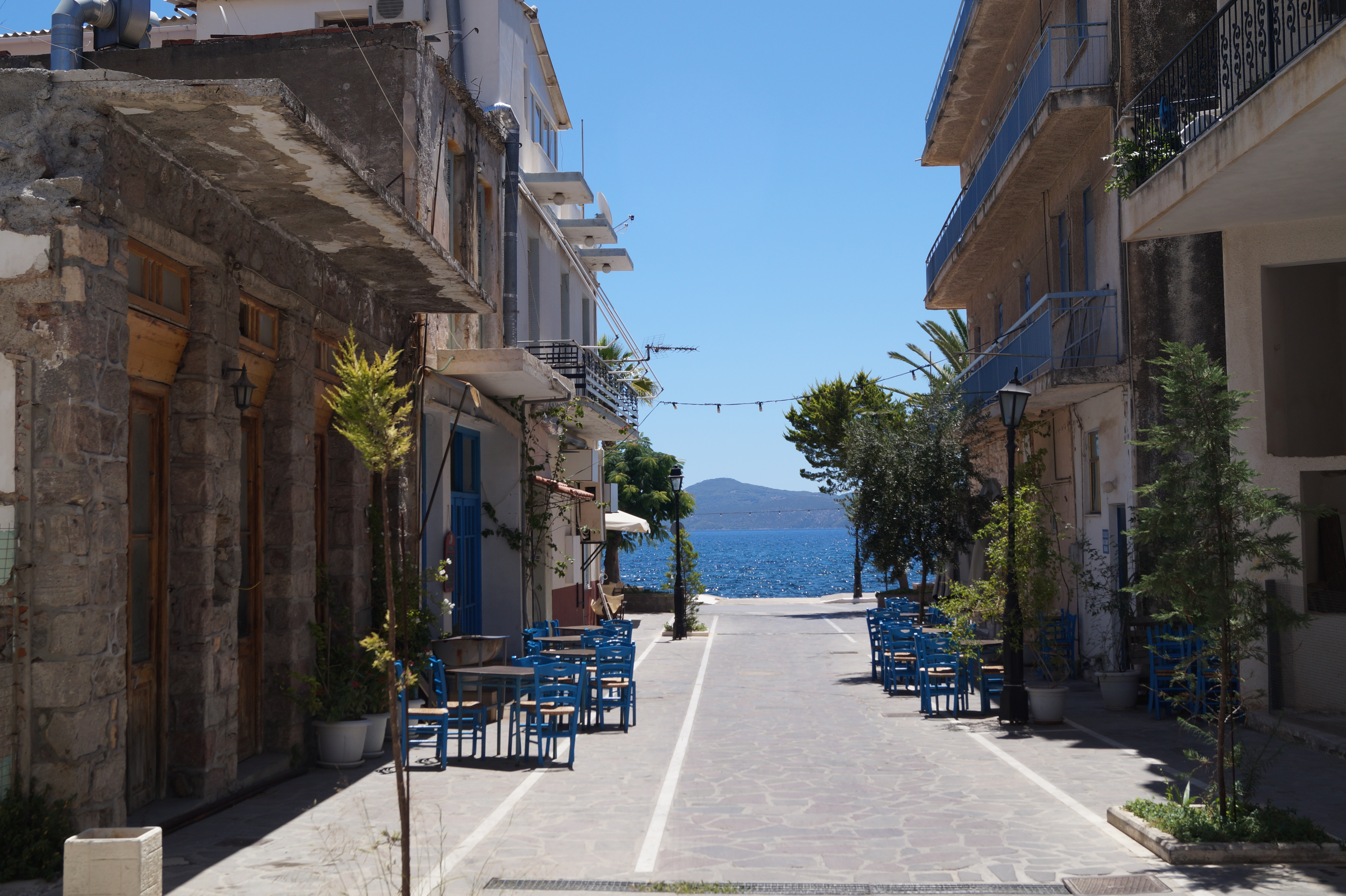 Methana, Greece: Odos Petrou Palli in Methana (town).